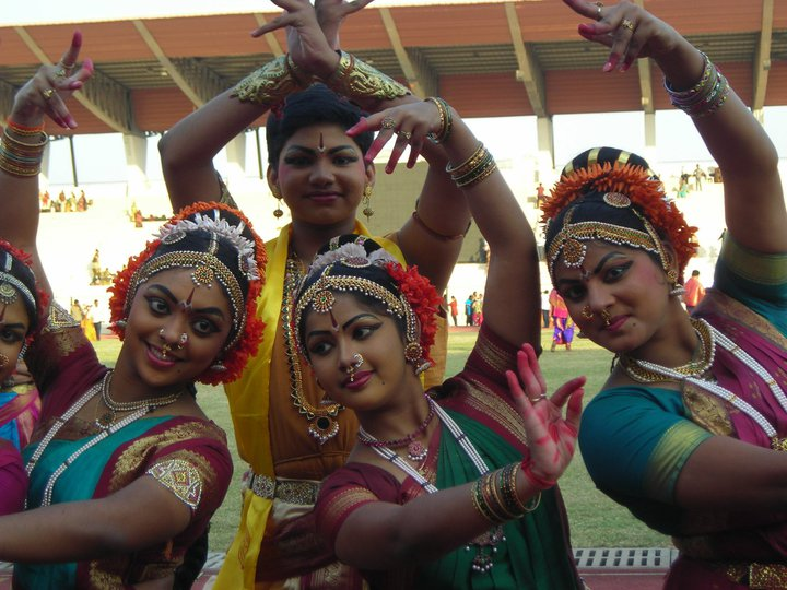 Kuchipudi Dancers Performing Hindolam Thillana at the GMC Balayogi Stadium in Hyderabad- Chief Guest The President of India, Ms Pratibha Patil